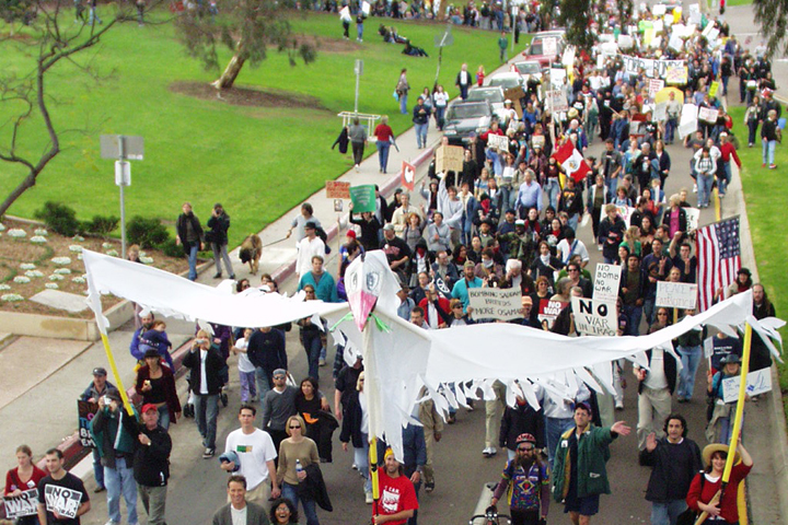 A peace march through Balboa Park, San Diego, California, 2003 to protest the Iraq War seven days before it began. Photograph by Patty Mooney, Crystal Pyramid Productions.